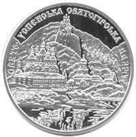 A 10 hryvnia coin with the Sviatohirsk Lavra.